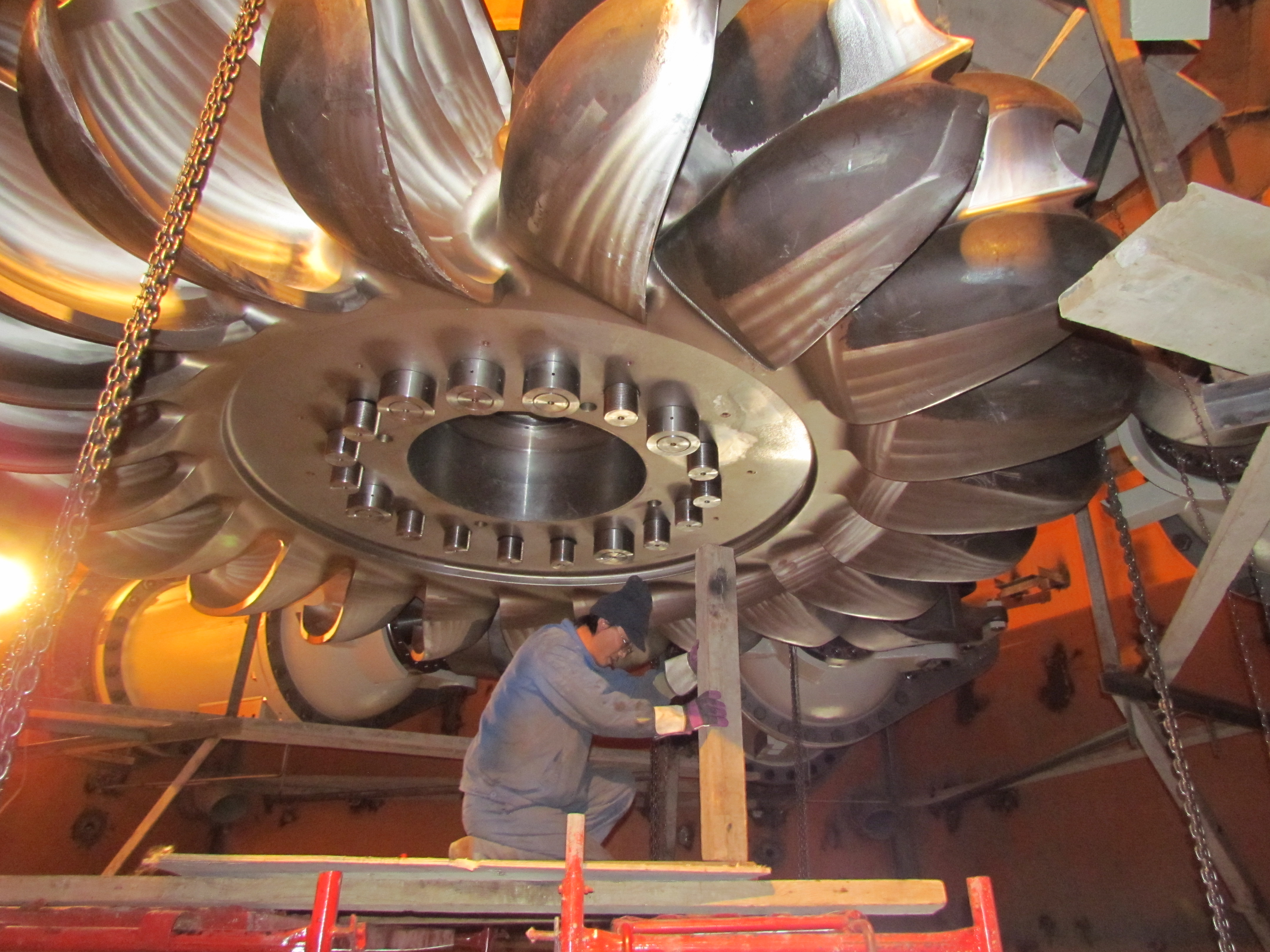 Moinak Hydro Power Plant